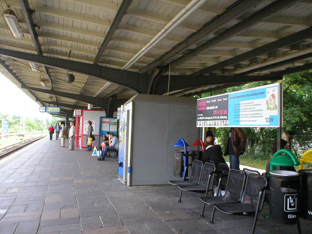 Platform Berlin's suburban rail station Frankfurter Allee